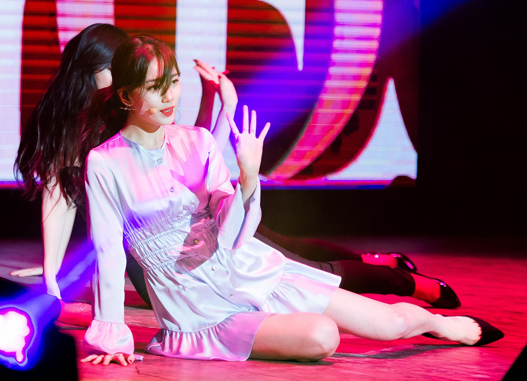 Suzy performing live, 25 January 2017